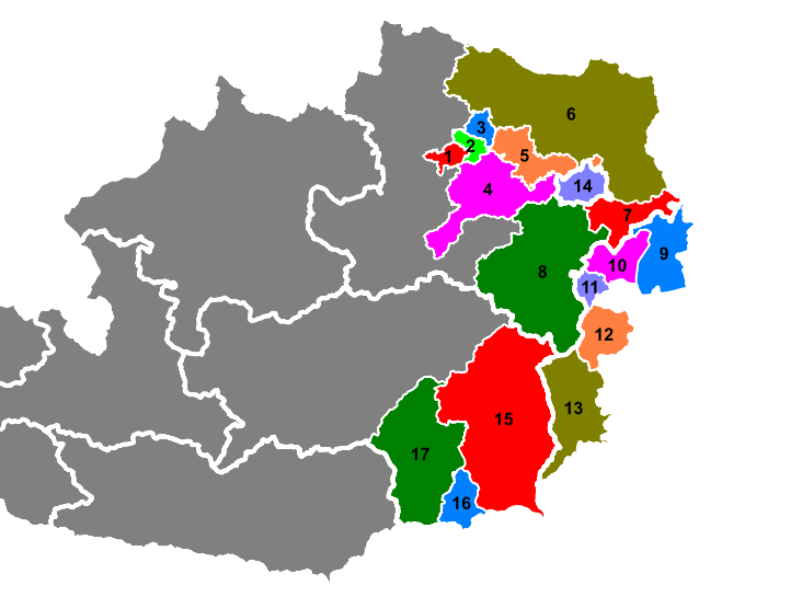 Author:Robert Kropf 1: Wachau 2: Kremstal 3: Kamptal 4: Traisental 5: Wagram (bis 2006: Donauland) 6: Weinviertel 7: Carnuntum 8: Thermenregion 9: Neusiedlersee 10: Leithaberg 11: Rosalia 12: Mittelburgenland 13: Eisenberg 14: Wien 15: Vulkanland Steiermark (bis 2015: Süd-Oststeiermark) 16: Südsteiermark 17: Weststeiermark